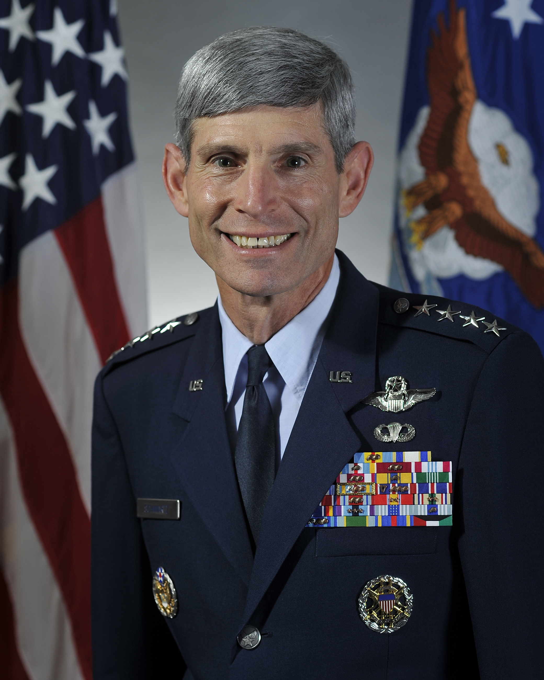 General Norton A. Schwartz, USAF, Chief of Staff of the U.S. Air Force